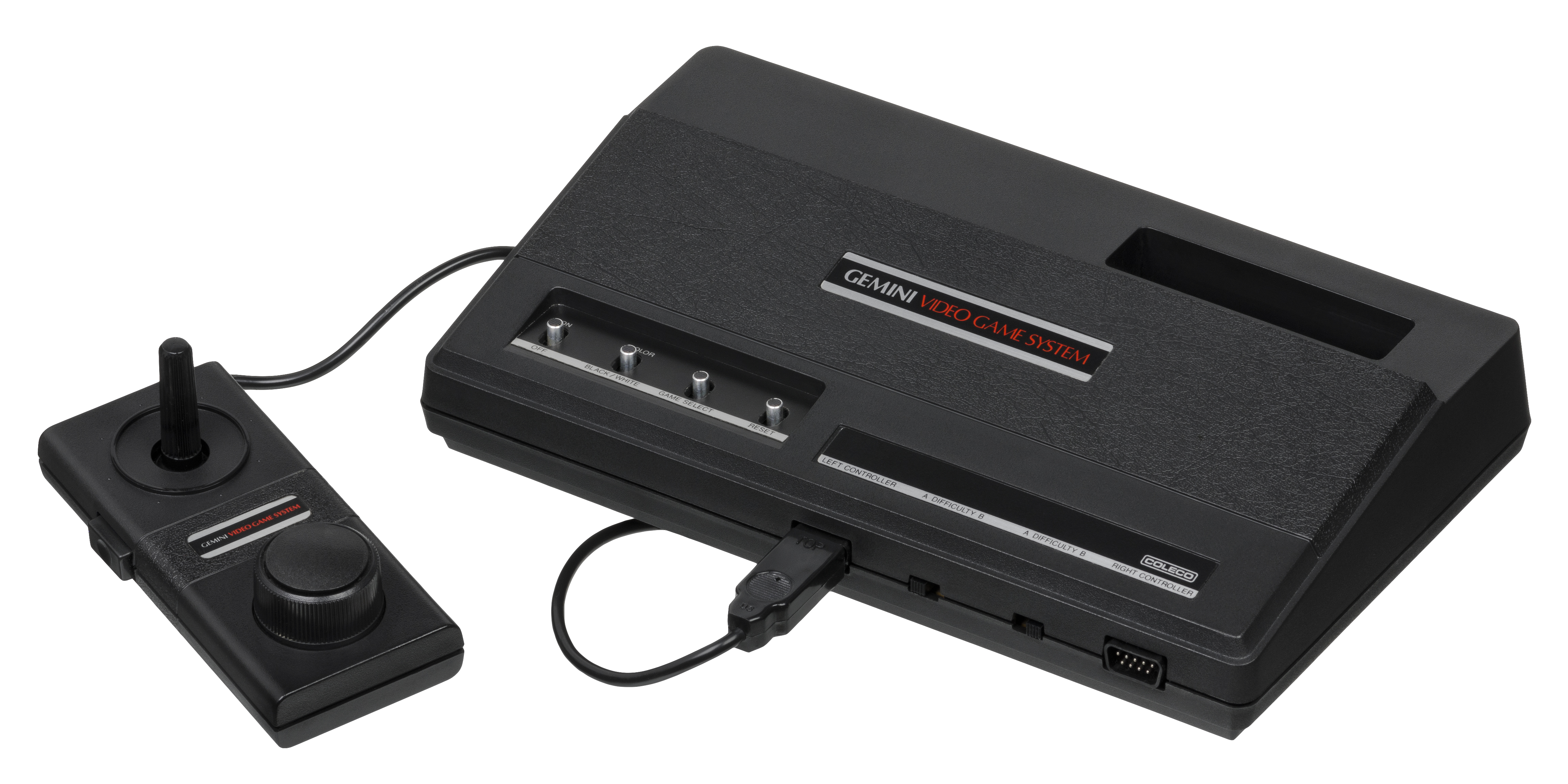 The Gemini video game console, a console clone of the Atari 2600 produced by Coleco in 1983.